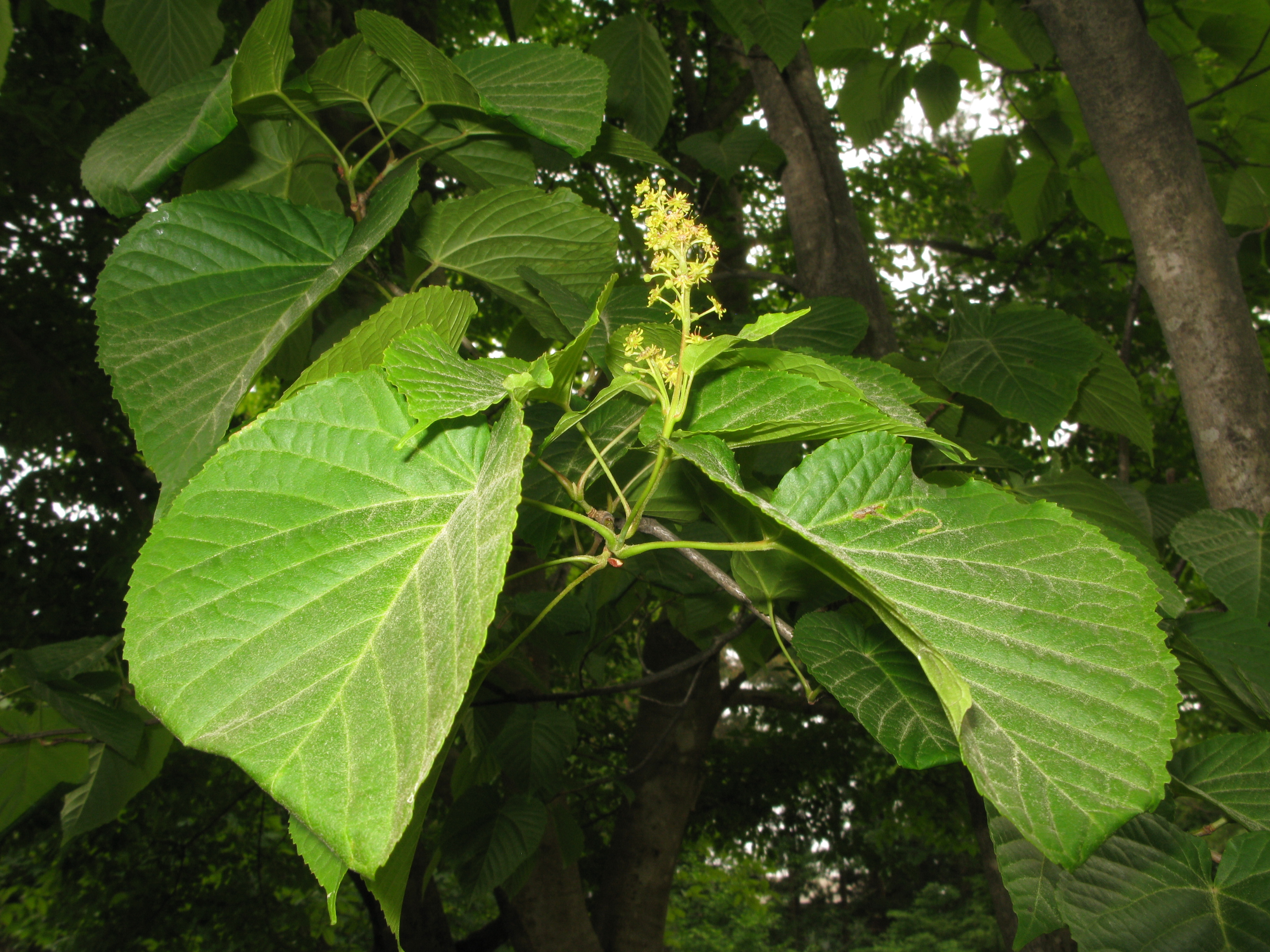 Acer distylum, Aizu Matsudaira's Royal Garden, Fukushima pref., Japan